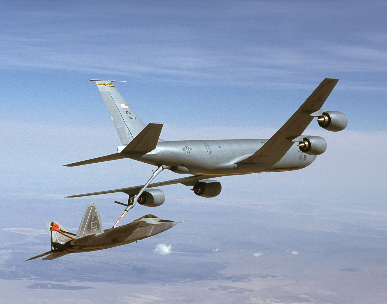 A KC-135R Stratotanker from the 22nd Air Refueling Wing at McConnell AFB, Kansas, USA refuels an F/A-22 Raptor.